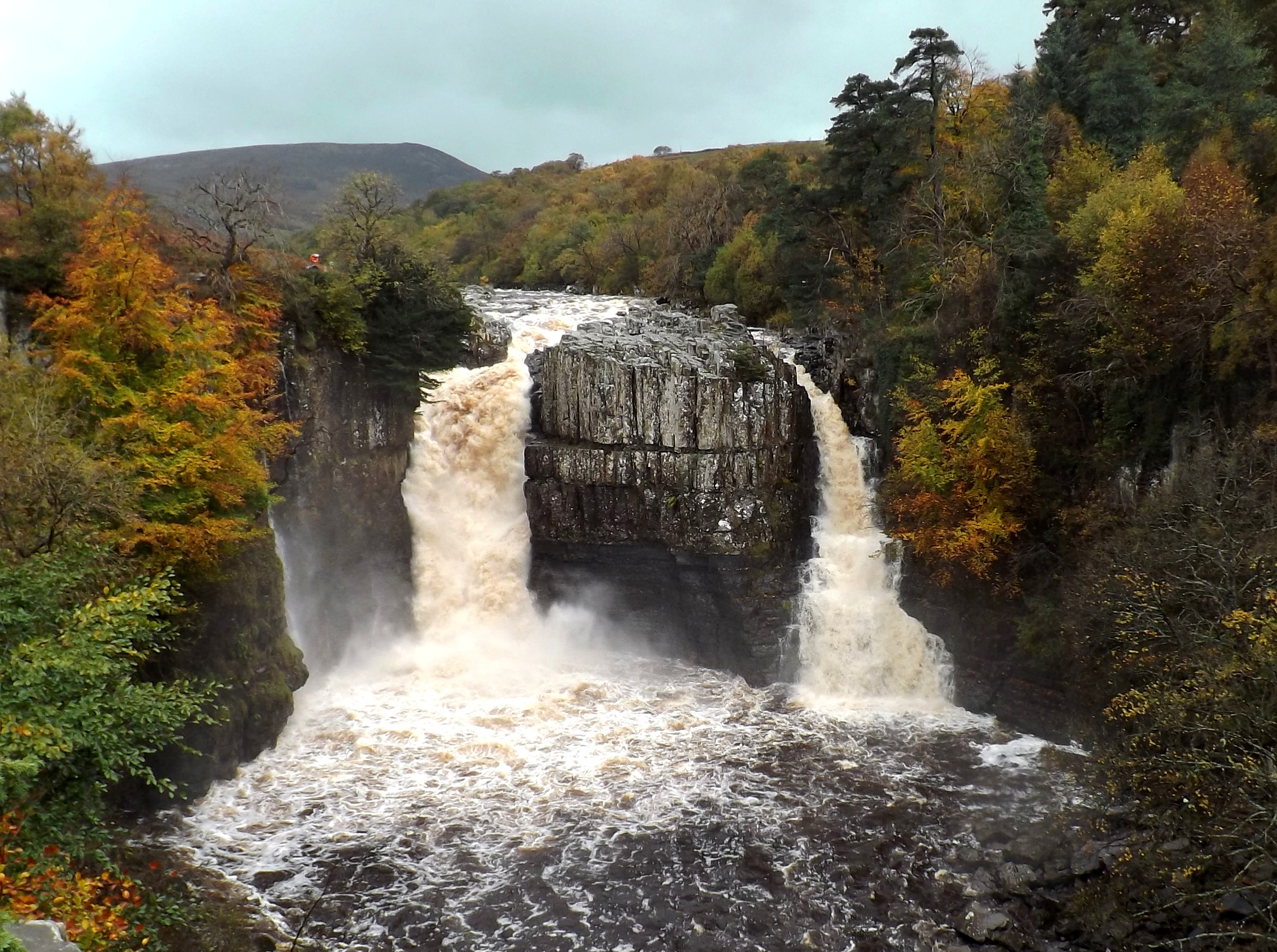 This image is one I took on a visit to High Force, reputed to be the highest waterfall in England. Normally, as the Wikipedia page shows, the main fall is showing, but with both in full flow it looks more spectacular